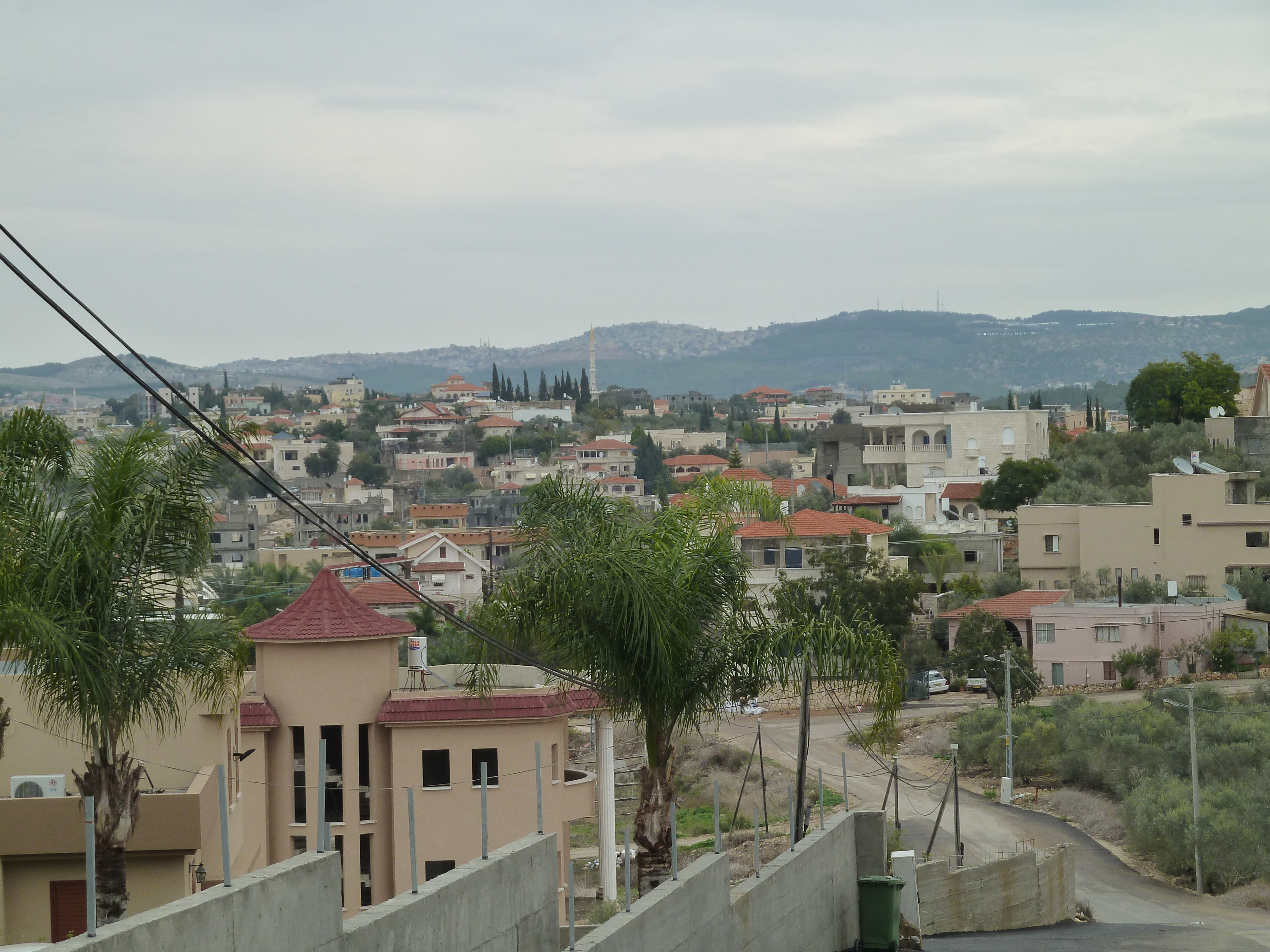 Kafr Qara